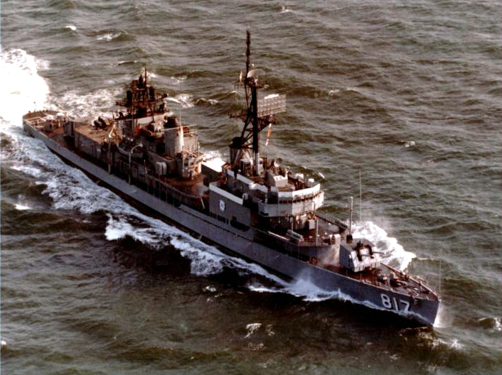 The U.S. Navy destroyer USS Corry (DD-817) underway in the 1970s. Corry was one of the last Gearing-class destroyers to be decommissioned on 27 February 1981. She had served in the U.S. Navy for exactly 35 years and served another 13 in the Greek navy.